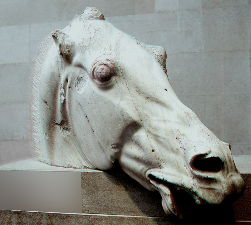 This is a standard image. A 3D version is also available at the thumbnail. Simple Red-Cyan glasses are needed to see 3D effect. GFDL self made image by Photo-Journalist, rights waived to Wikipedia now, and Commons (upload there soon)